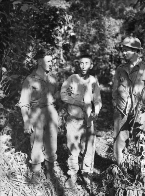 PAPUA, NEW GUINEA. 1942-10. TWO SOLDIERS OF THE A.I.F. SUPPORTING A JAPANESE PRISONER CAPTURED BY THE 3RD AUSTRALIAN INFANTRY BATTALION (C.M.F.) NEAR MENARI. HE WAS VERY WEAK AND EMACIATED.